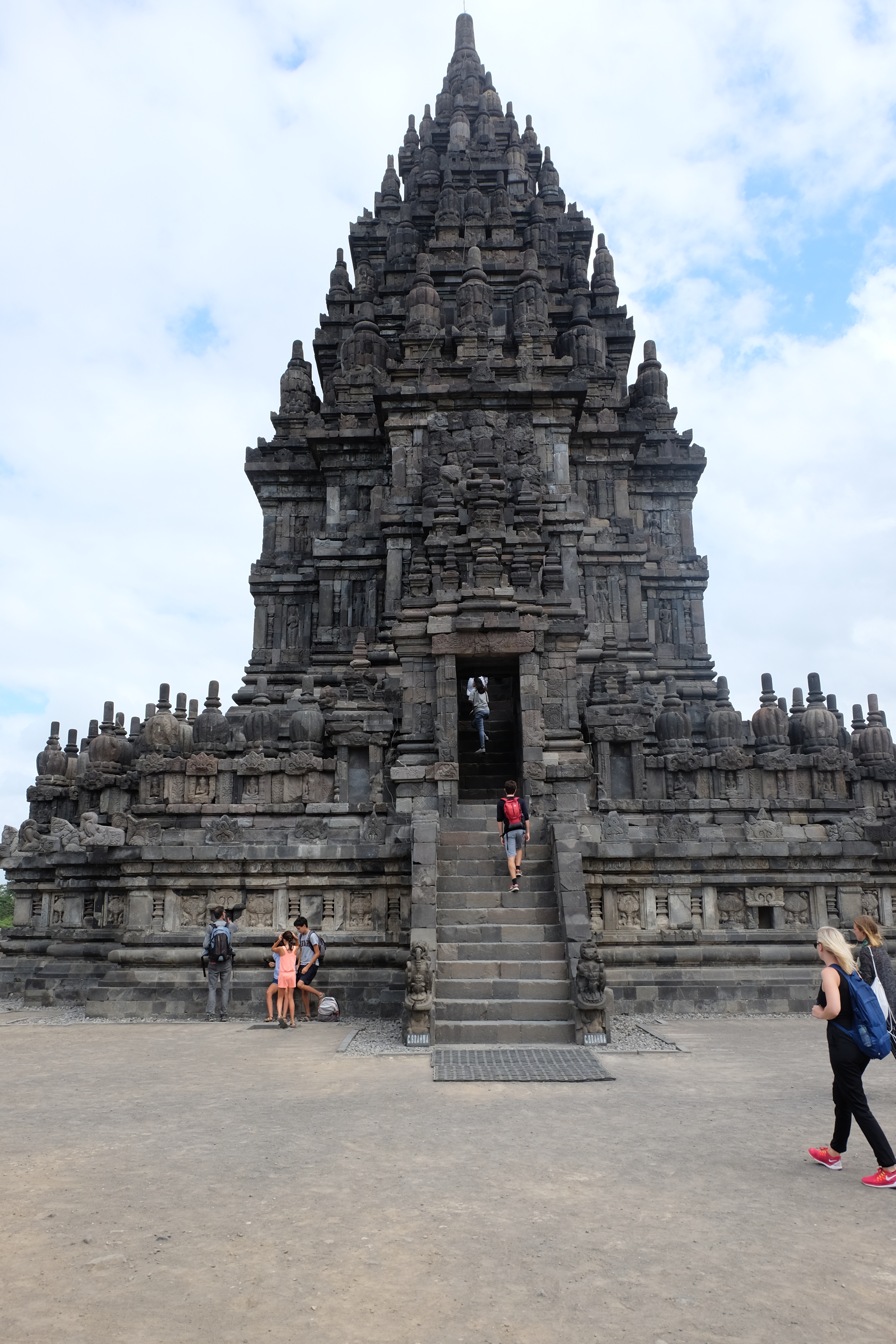 Brahma temple Prambanan